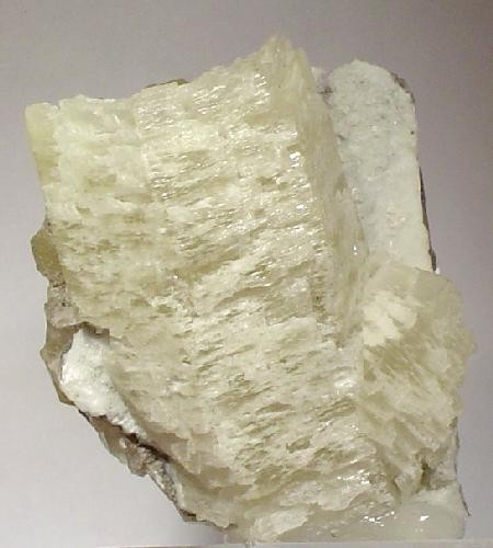 Witherite, Fluorite Locality: Mahoning No. 1 Mine (Minerva No. 1 Mine), Ozark-Mahoning Group, Cave-in-Rock Sub-District, Illinois - Kentucky Fluorspar District, Hardin County, Illinois, USA (Locality at ) Size: 4.8 x 4.4 x 3.2 cm. A large, sharp, lustrous, pseudohexagonal witherite crystal attached to a thin vein of yellow fluorite from the famed Minerva #1 of Southern Illinois. This outstanding Cave-in-Rock District witherite has a rare hoppered termination. Super white fluorescence. Ex. George Feist and Ed David Collections.